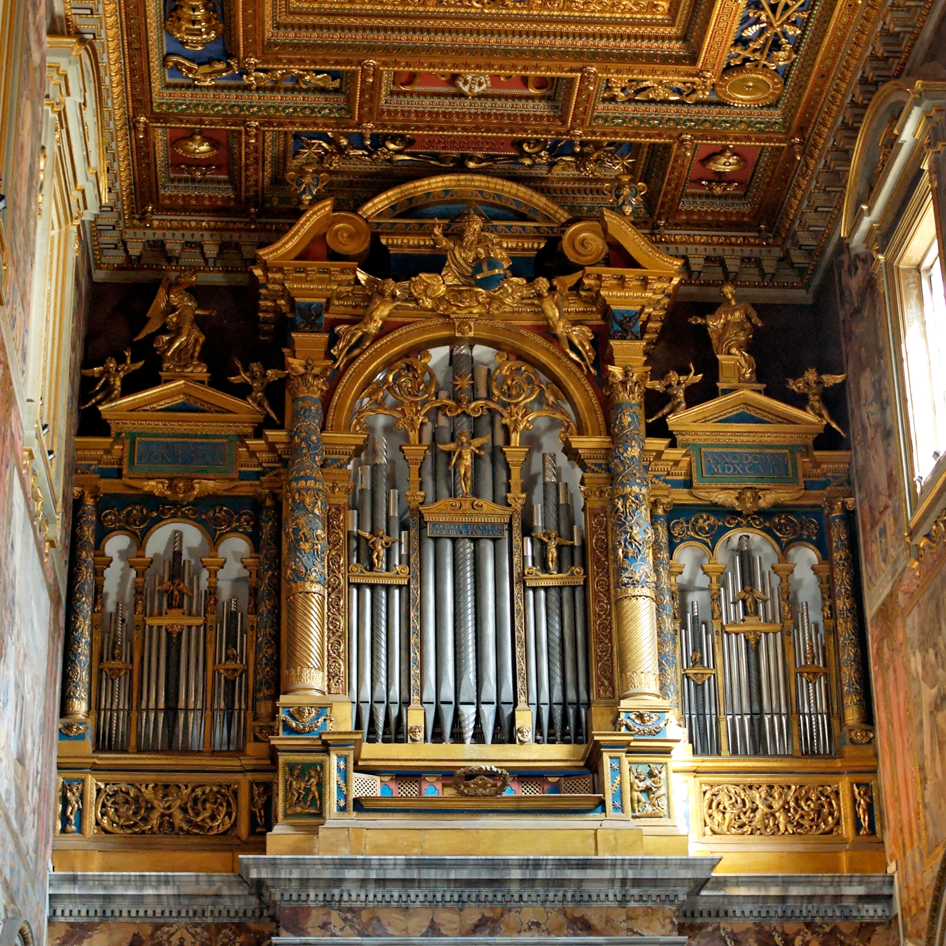 Pipe organ of the Basilica of St. John Lateran (Rome).